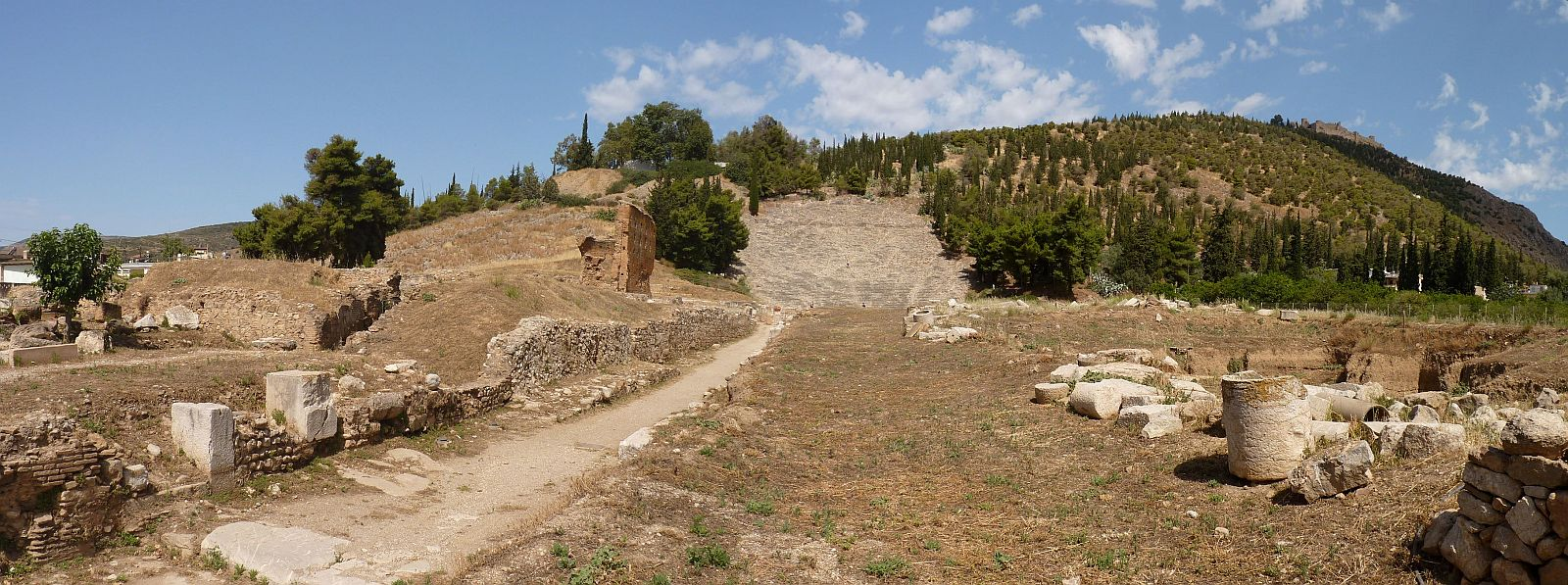 Ancient Argos - more information visit Ploync